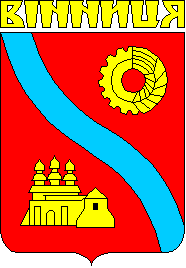 Coat of arms Vinnytsia Ukraine (Soviet era)